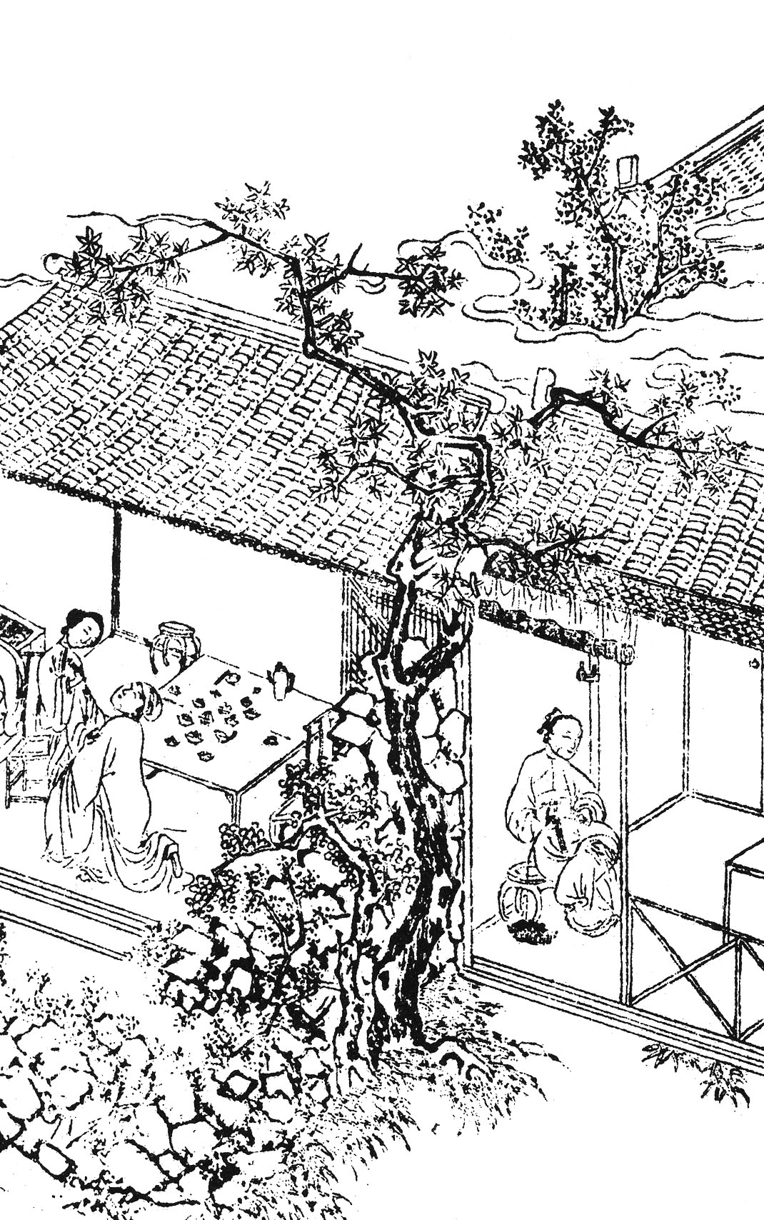 Jin Ping Mei, illustration from chinese edition (1617), part 1, chapter 4, Ximen Qing and Golden Lotus